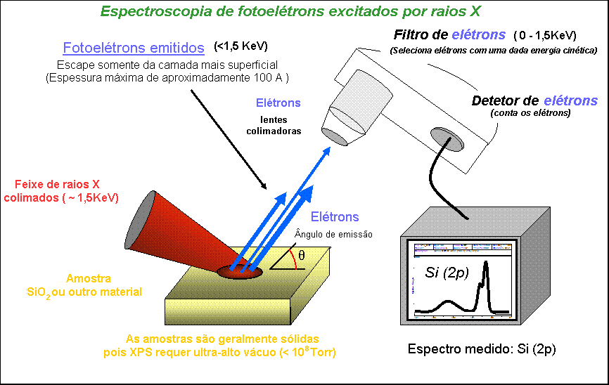 Basic structure of a X-ray photoelectron spectroscopy system.